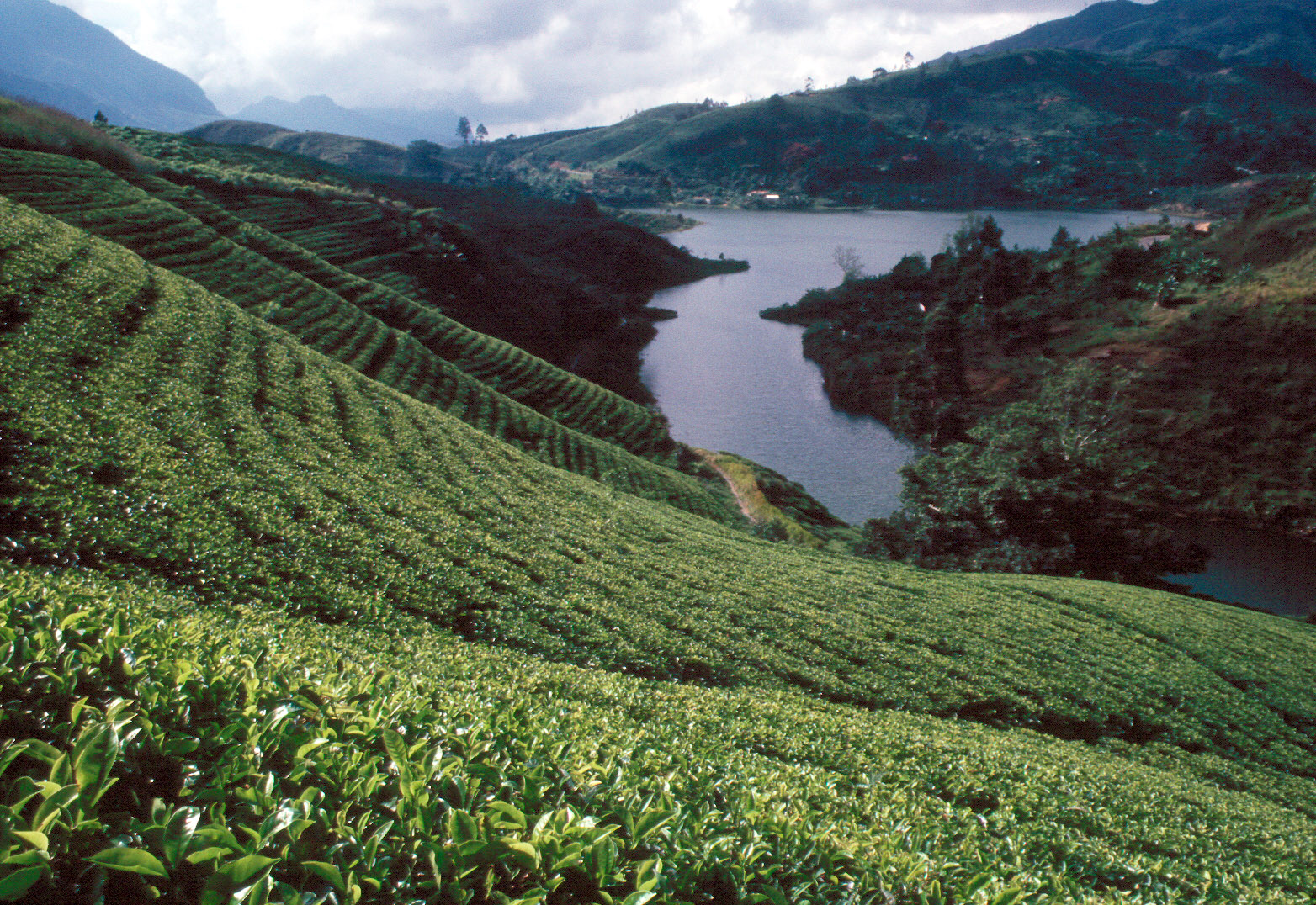 Tea plantation in the Sri Lankan highlands.